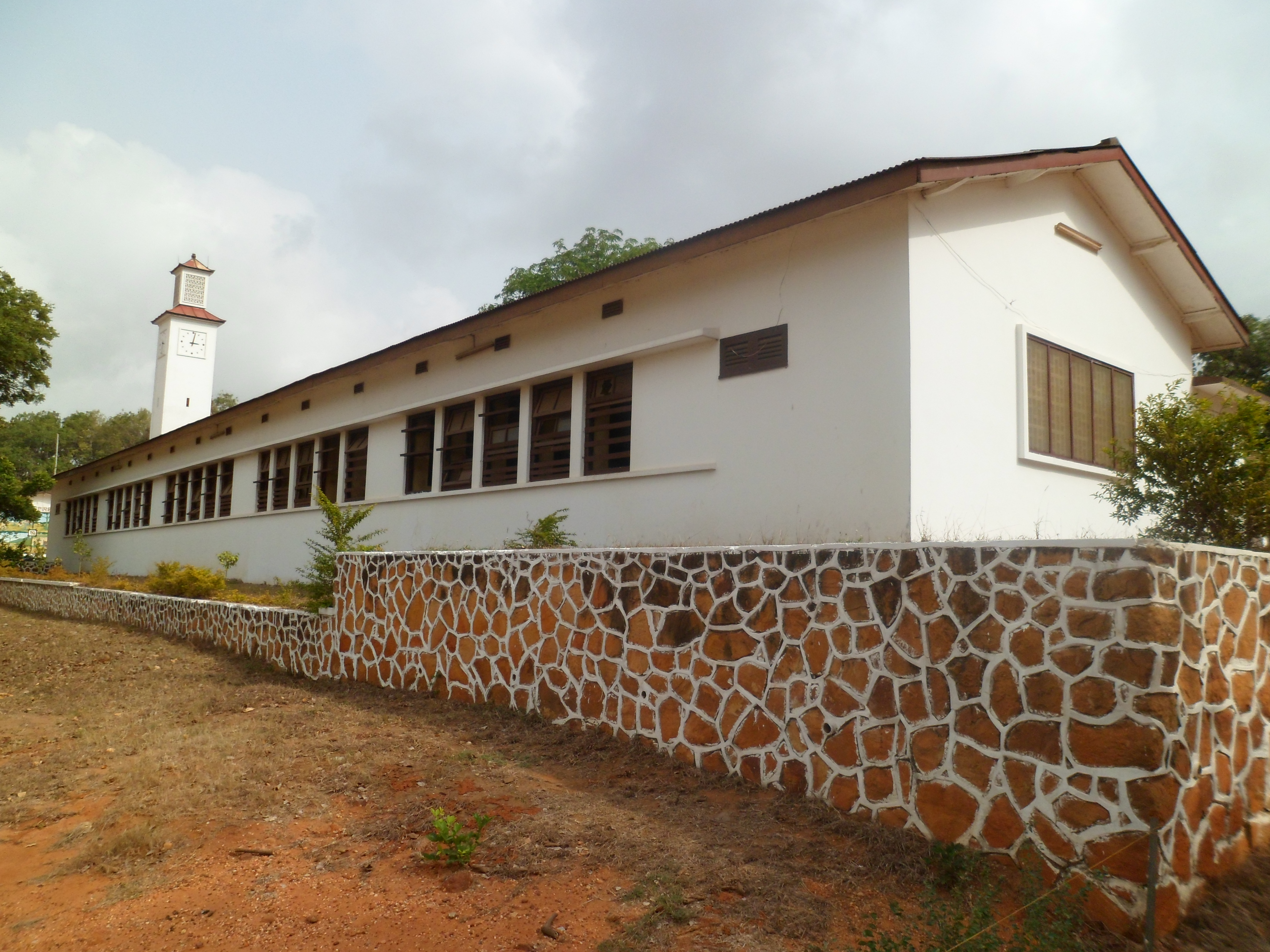 The Samuel Sonkor Sackey Block of Accra Academy